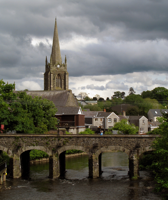 Massereene Bridge, Antrim In the foreground is the Massereene Bridge across the Sixmilewater. The bridge was built in 1708 by the Viscount Massereene as a gift to the people of Antrim. In the background is the spire of All Saints Church.